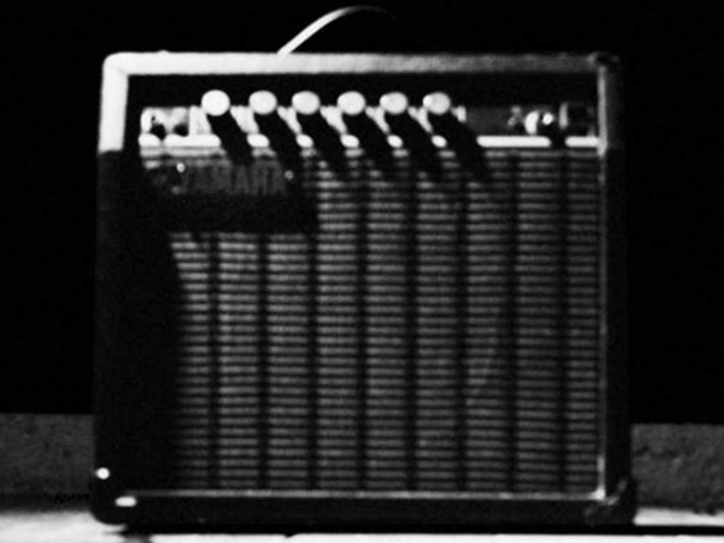 Yamaha F-20 Project 365 Day 3 In common use, the word noise means any unwanted sound. In both analog and digital electronics, noise is an unwanted perturbation to a wanted signal; it is called noise as a generalisation of the audible noise heard when listening to a weak radio transmission. Signal noise is heard as acoustic noise if played through a loudspeaker; it manifests as 'snow' on a television or video image. Noise can block, distort, change or interfere with the meaning of a message in human, animal and electronic communication. Raknrol! (strobist info: 430ex2 with snoot via canon 7d wireless)